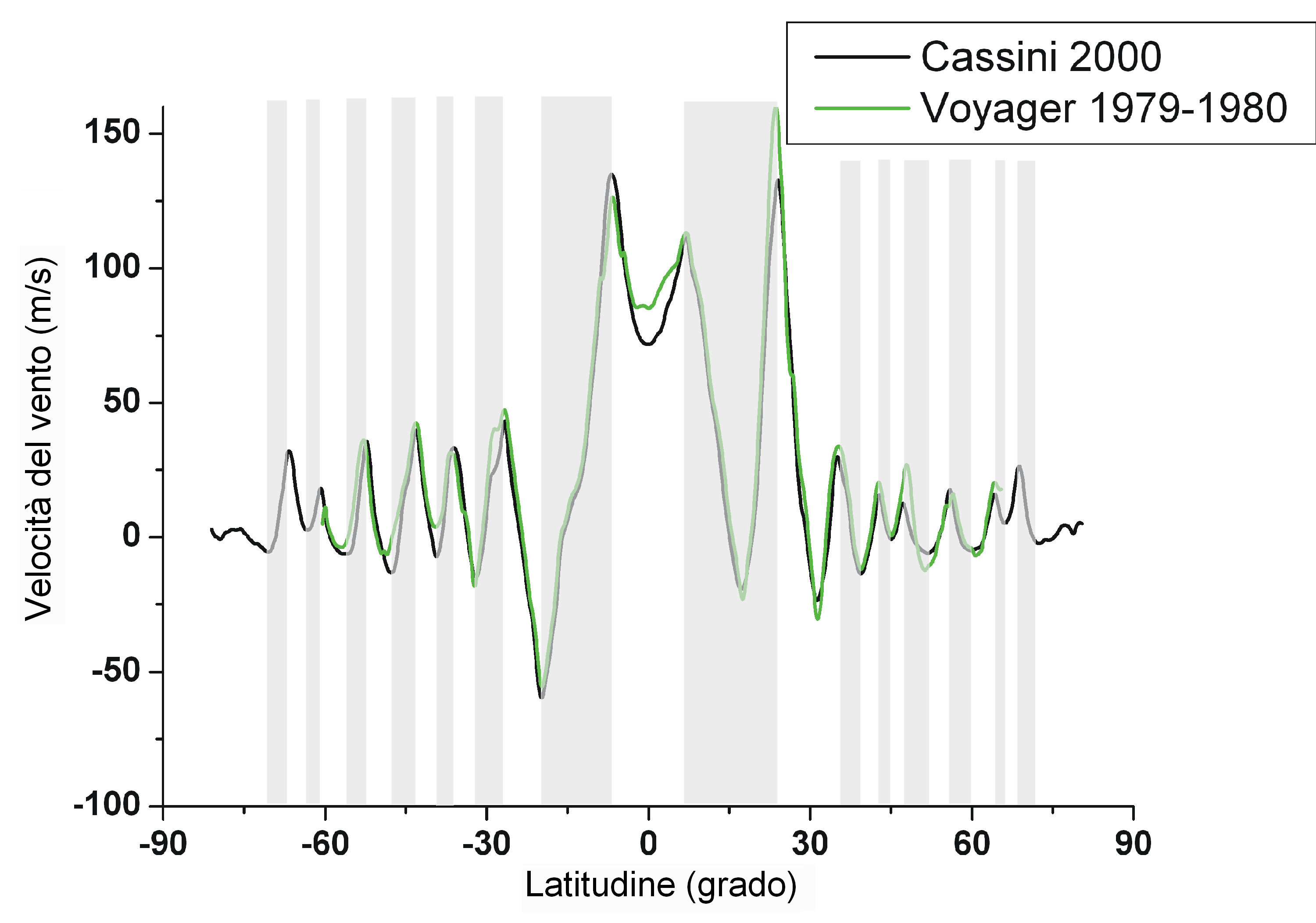 Zonal wind speeds in the atmosphere of Jupiter. The results of the Voyager and Cassini missions are shown. The shaded areas correspond to the locations of belts. Source: Vasavada, Ashvin R.; Showman, Adam (2005). "Jovian atmospheric dynamics: an update after Galileo and Cassini". Reports on Progress in Physics 68: 1935–1996.